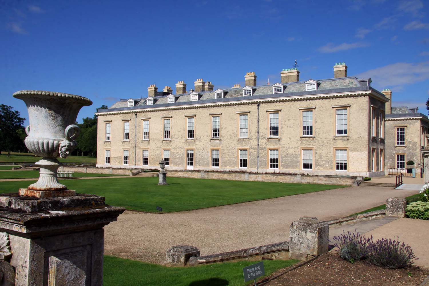 Western side of Althorp House, Northamptonshire